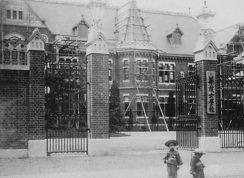 Kazoku-Jogakko(Peeresses' School)